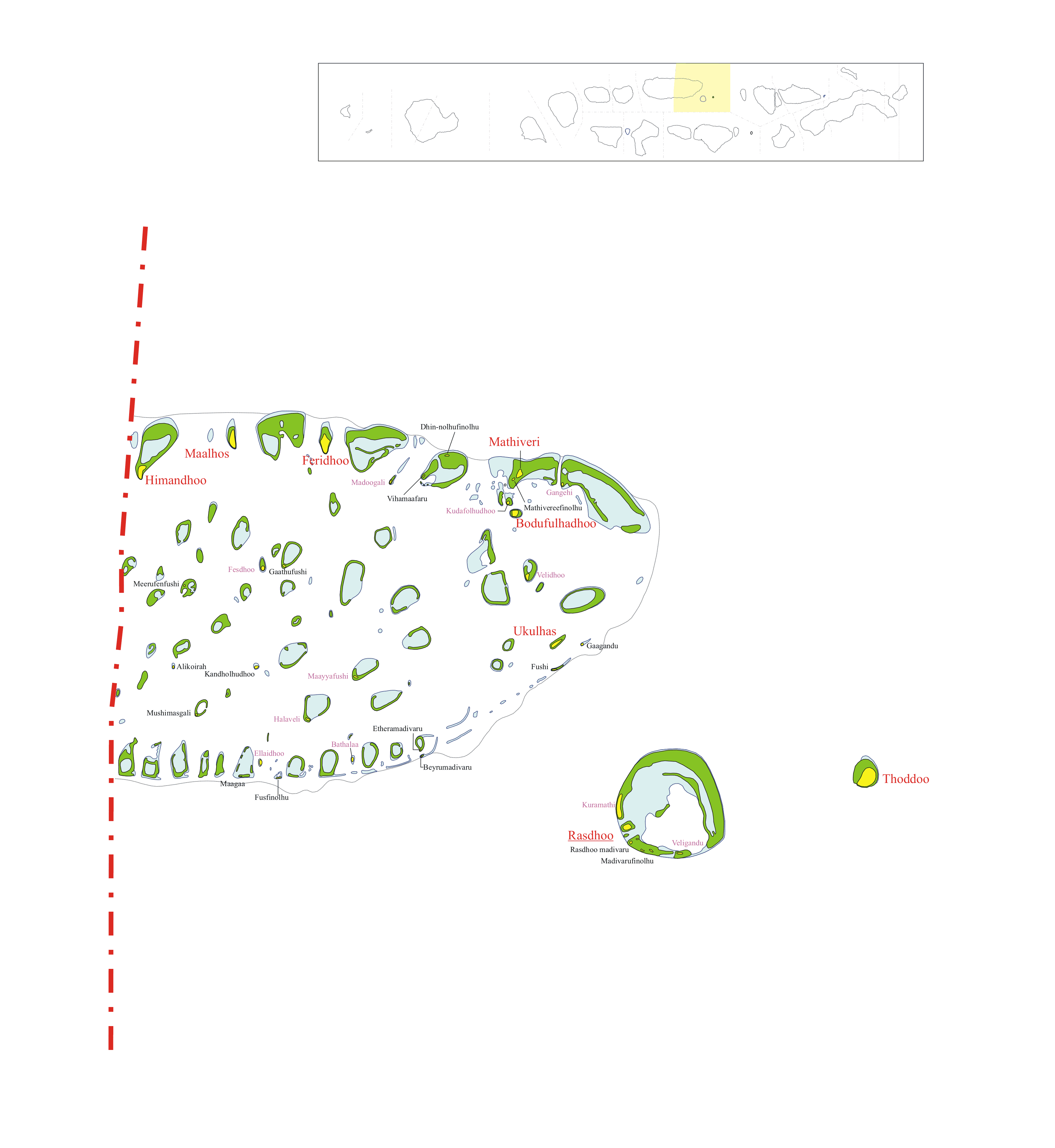 Map of Alif_Alif_Atoll